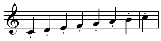 Diatonic scale on C, staccato articulation.